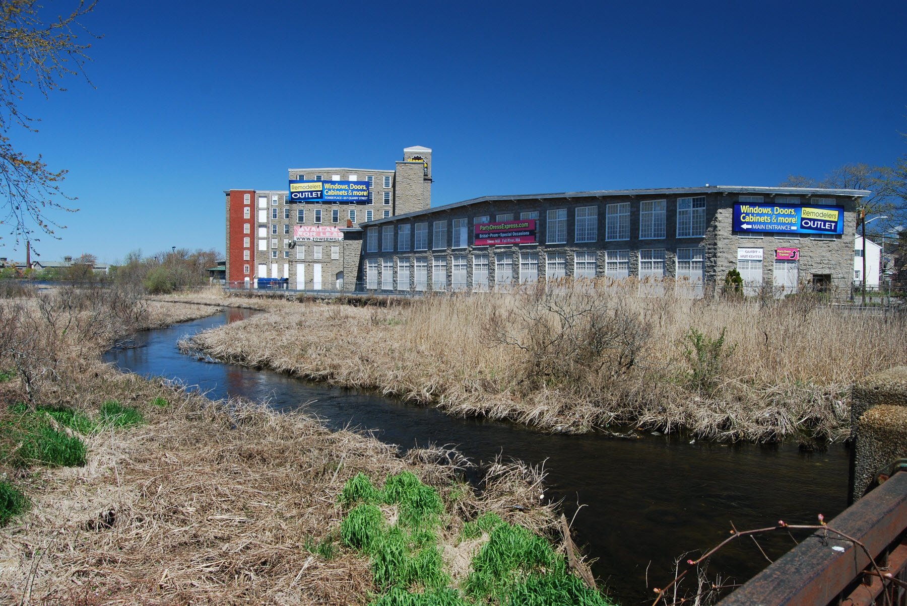 Quequechan River and Barnard Mills, Fall River, Massachusetts; viewed from Quequechan Street Bridge.